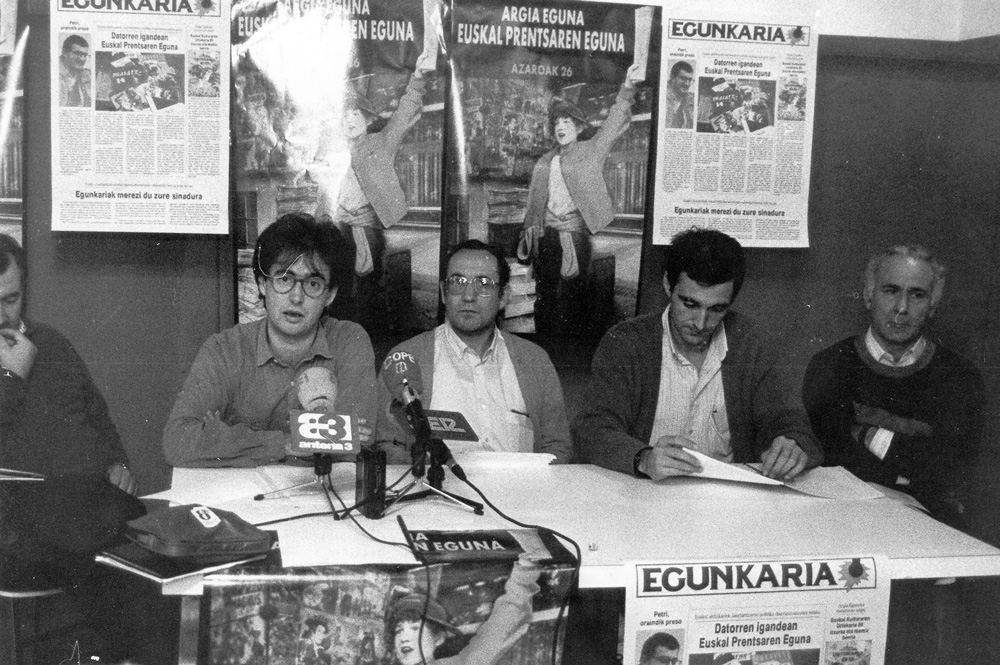 Joxemi Zumalabe, Iñaki Uria, Inaki Irazabalbeitia and Joxe Azurmendi in 1988.